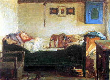 Painting by Danish artist Viggo Johansen, Christian Bindslev er syg. Johansen was one of the Skagen Painters.